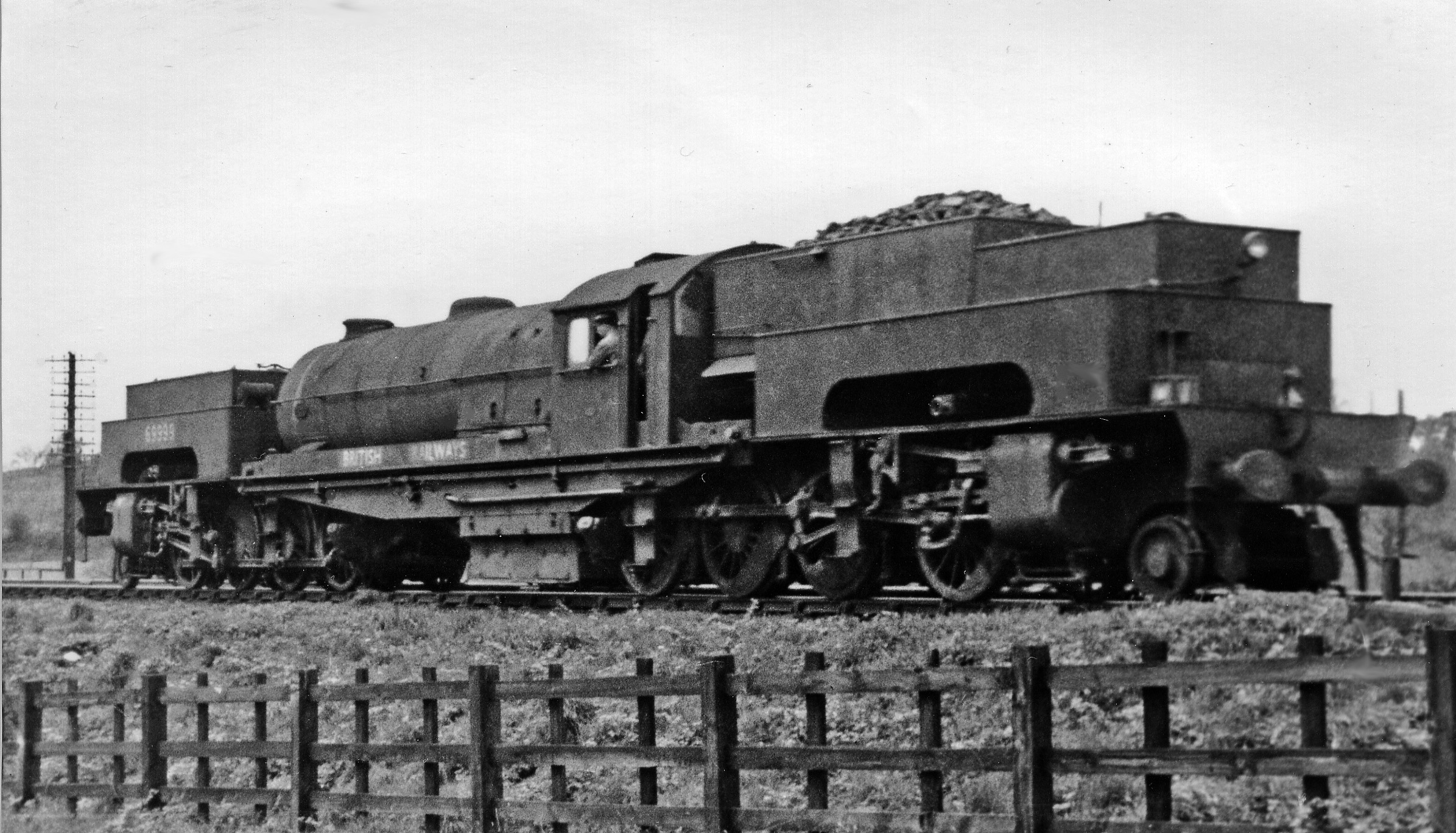 LNER Garratt running back down to Bromsgrove. View southward, towards Bromsgrove; ex-Midland Birmingham - Bristol main line. No. 69999 is returning to take up its next banking job. (See SO9971 : The LNER Garratt on the Lickey Incline below Blackwell for details).